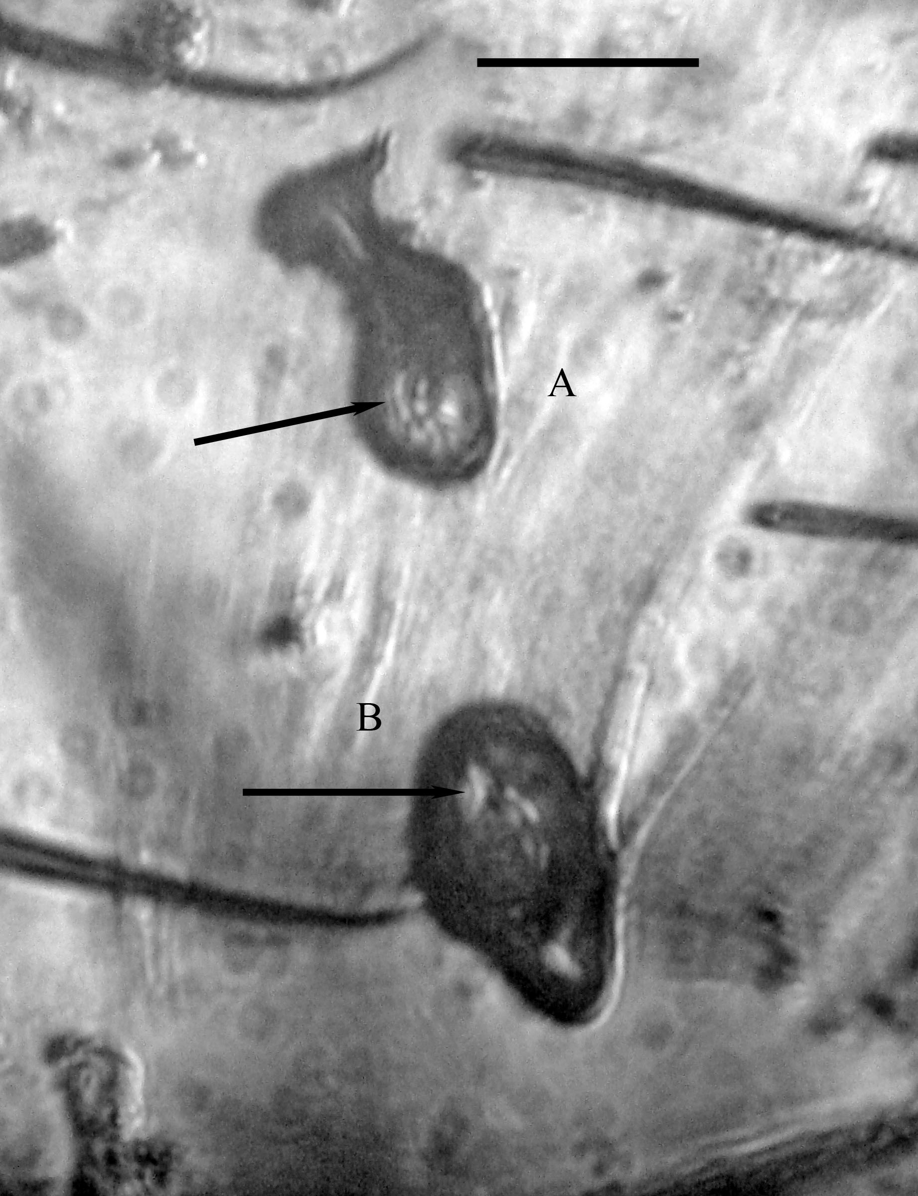 Oocysts A and B of Vetufebrus ovatus attached to the gut wall of the streblid bat fly Enischnomyia stegosoma in Dominican amber. Arrows show developing sporozoites inside oocysts. Poinar amber collection No. D-7-239; Oregon State University, Corvallis, Oregon Bar = 33 μm.